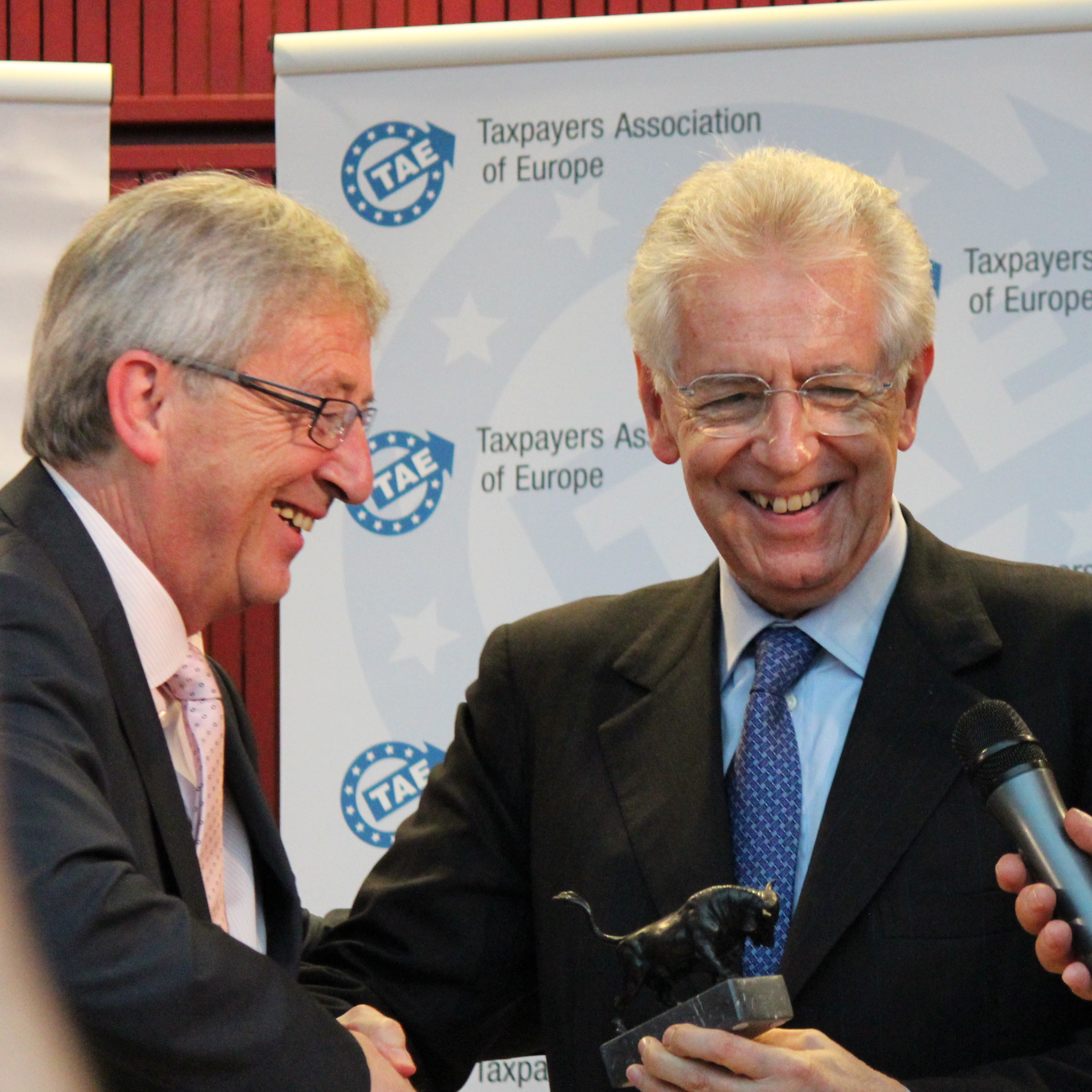 Luxembourg Prime Minister Jean-Claude Juncker and Italian President of the Council (Prime Minister) Mario Monti, at a ceremony organised by the Taxpayers Association of Europe, awarding Mr Monti the European Taxpayers' Prize. Location: Representation of the Free State of Bavaria to the European Union in Brussels, 27 June 2012.